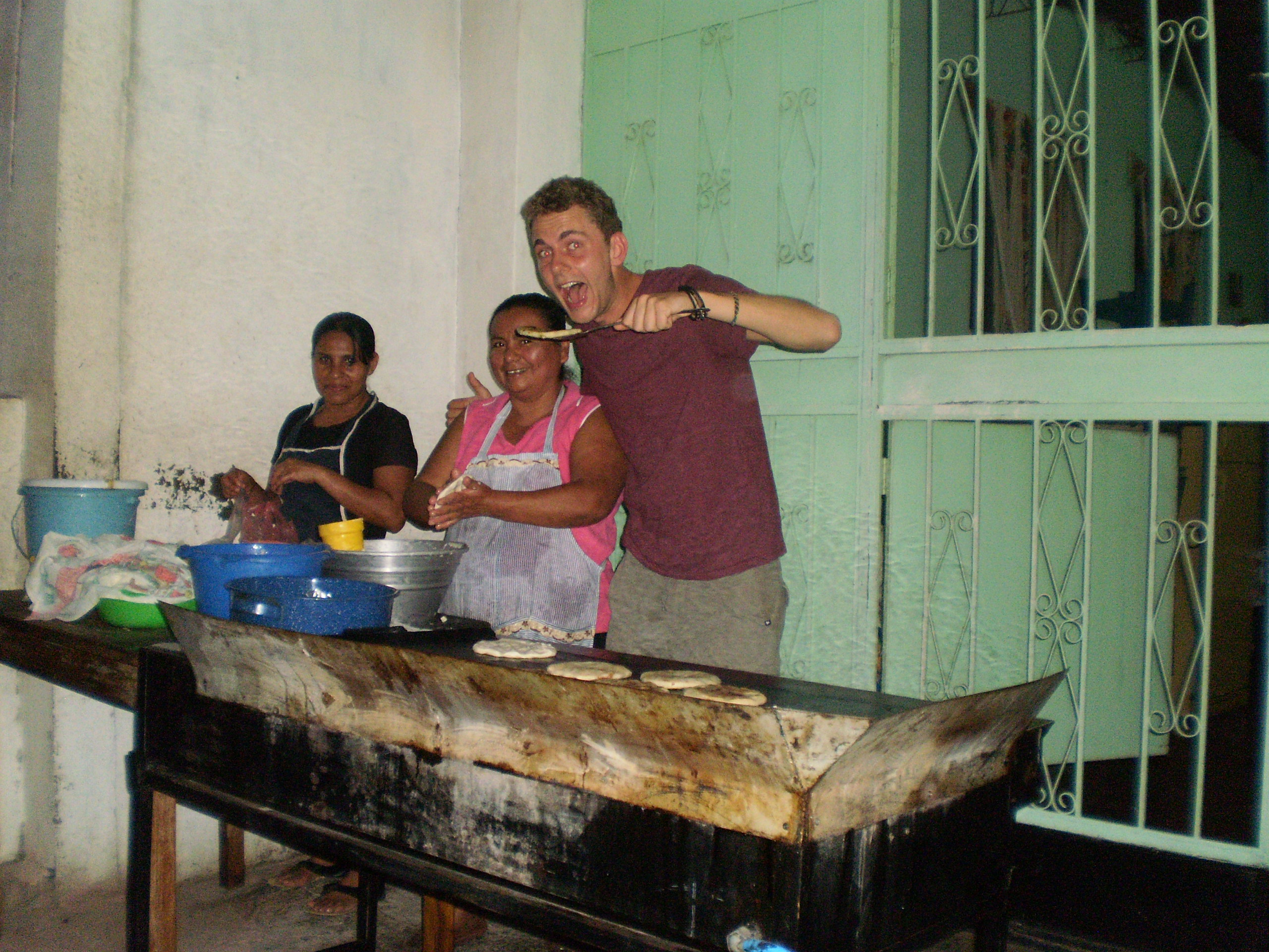 Steffen Amann helps baking Pupusas